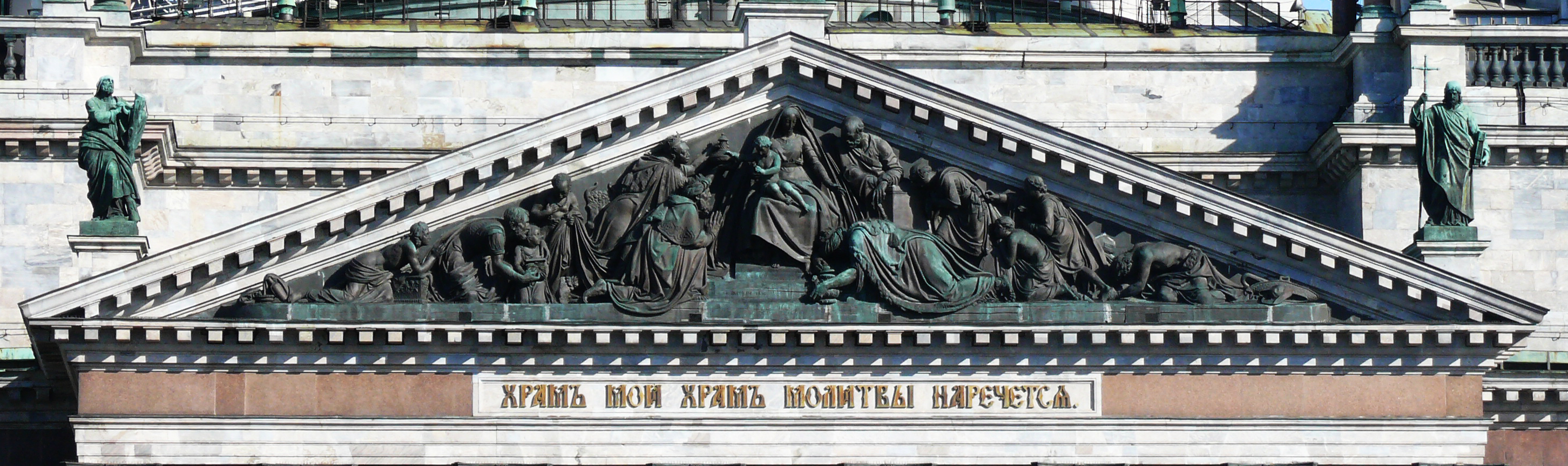 Saint Isaac's Cathedral. The pediment of the southern portico - "Adoration of the Magi"